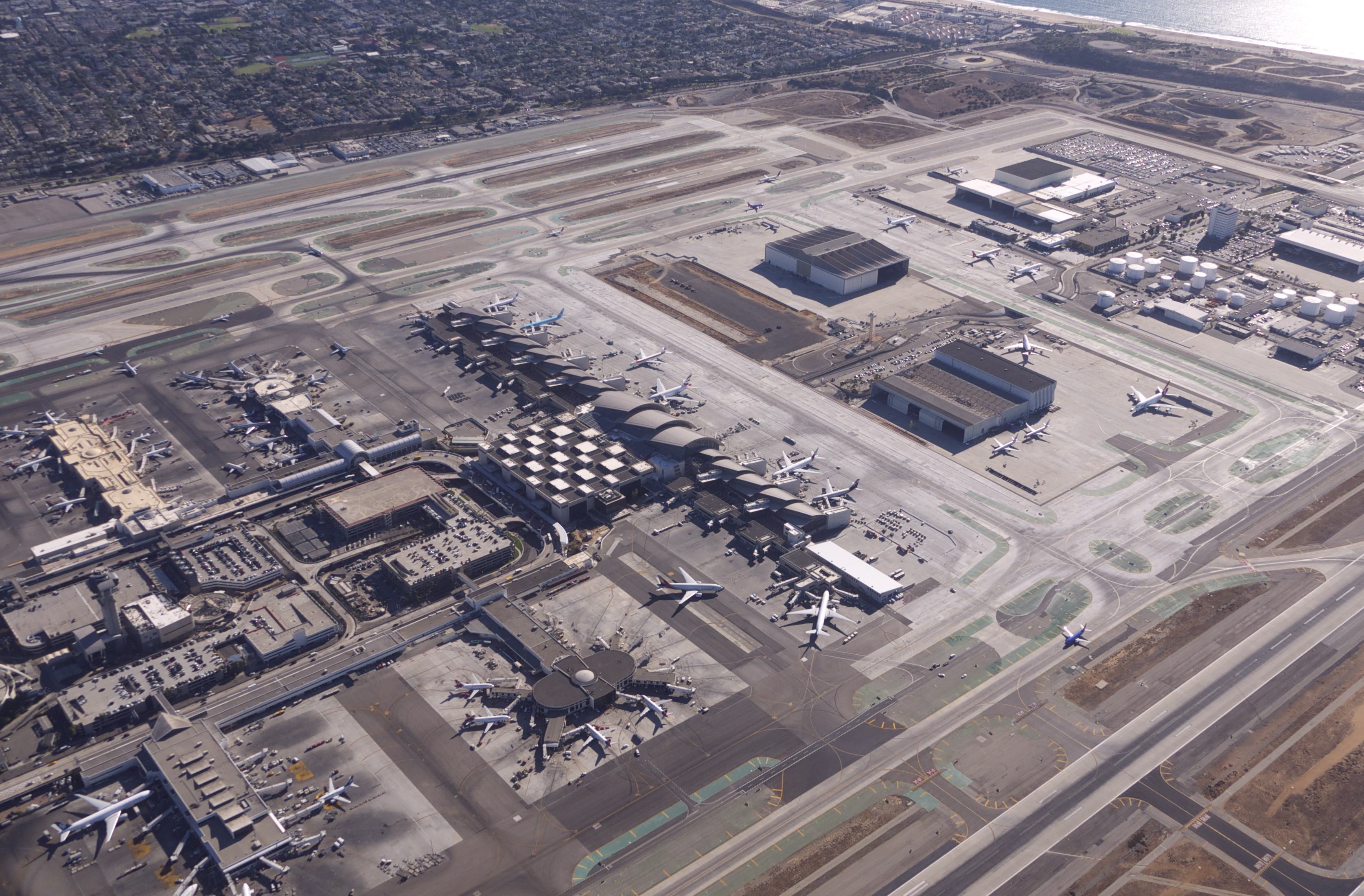 Aerial view of Los Angeles International Airport complex facing Southwest